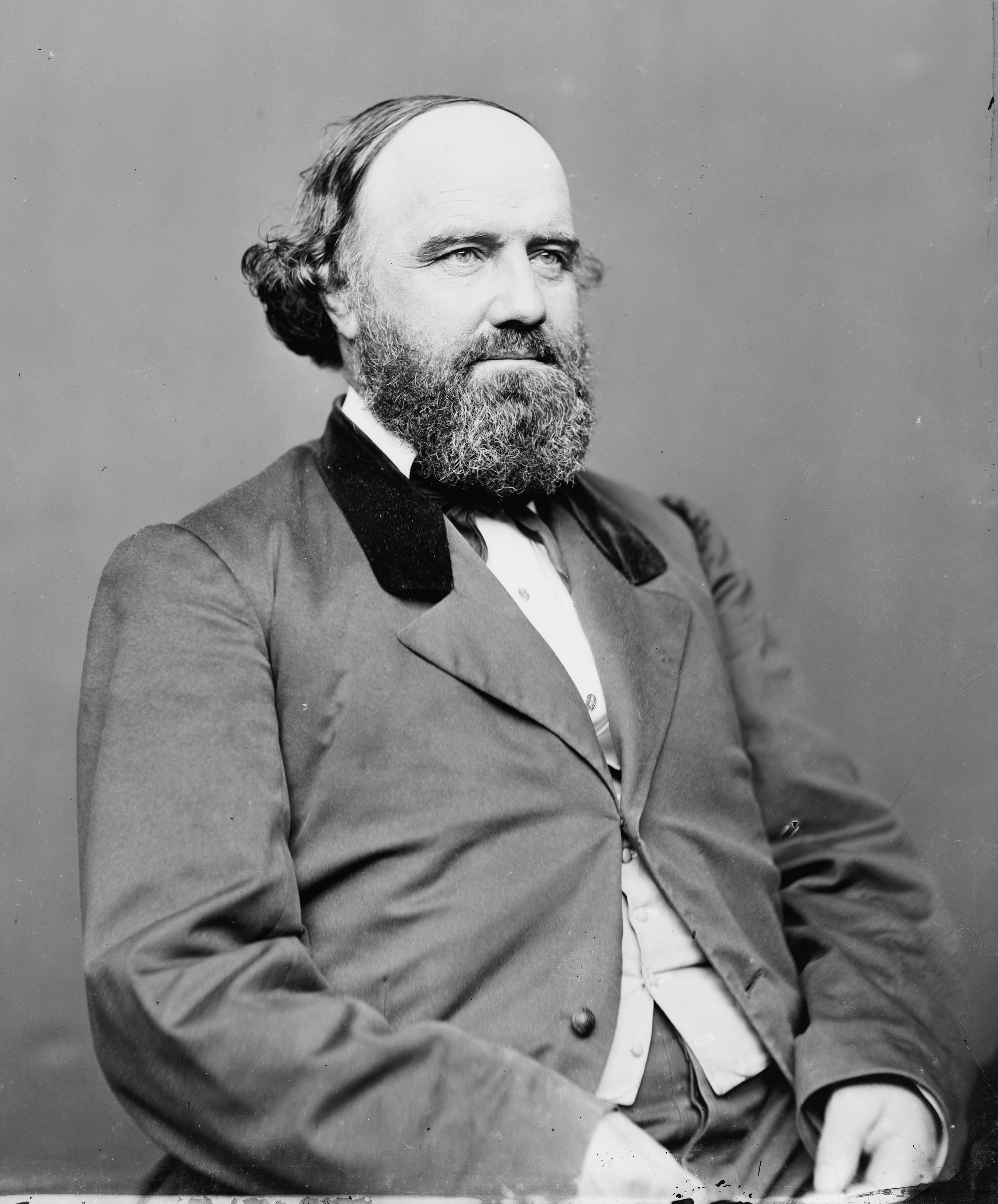 Samuel C. Pomeroy. Library of Congress description: "Pomeroy, Hon. Samuel Clarke of Kansas"